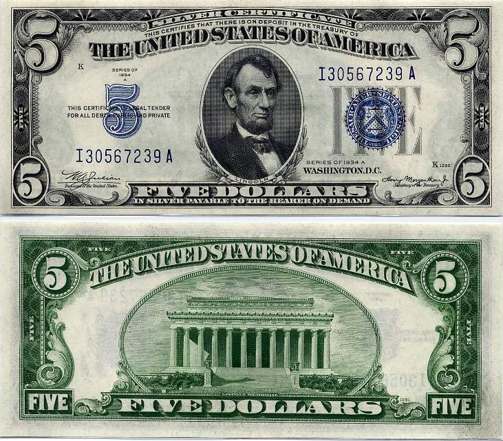 Picture of a series 1934-A Silver Certificate.